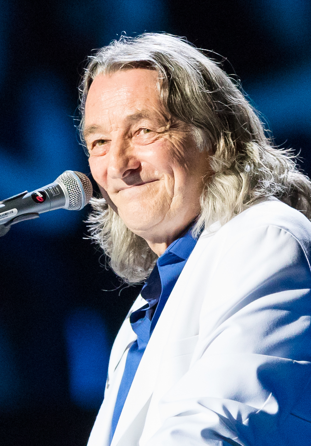 Roger Hodgson during Night of the Proms at SAP Arena, Mannheim, Baden-Württemberg, Germany on 2017-12-22, Photo: Sven Mandel